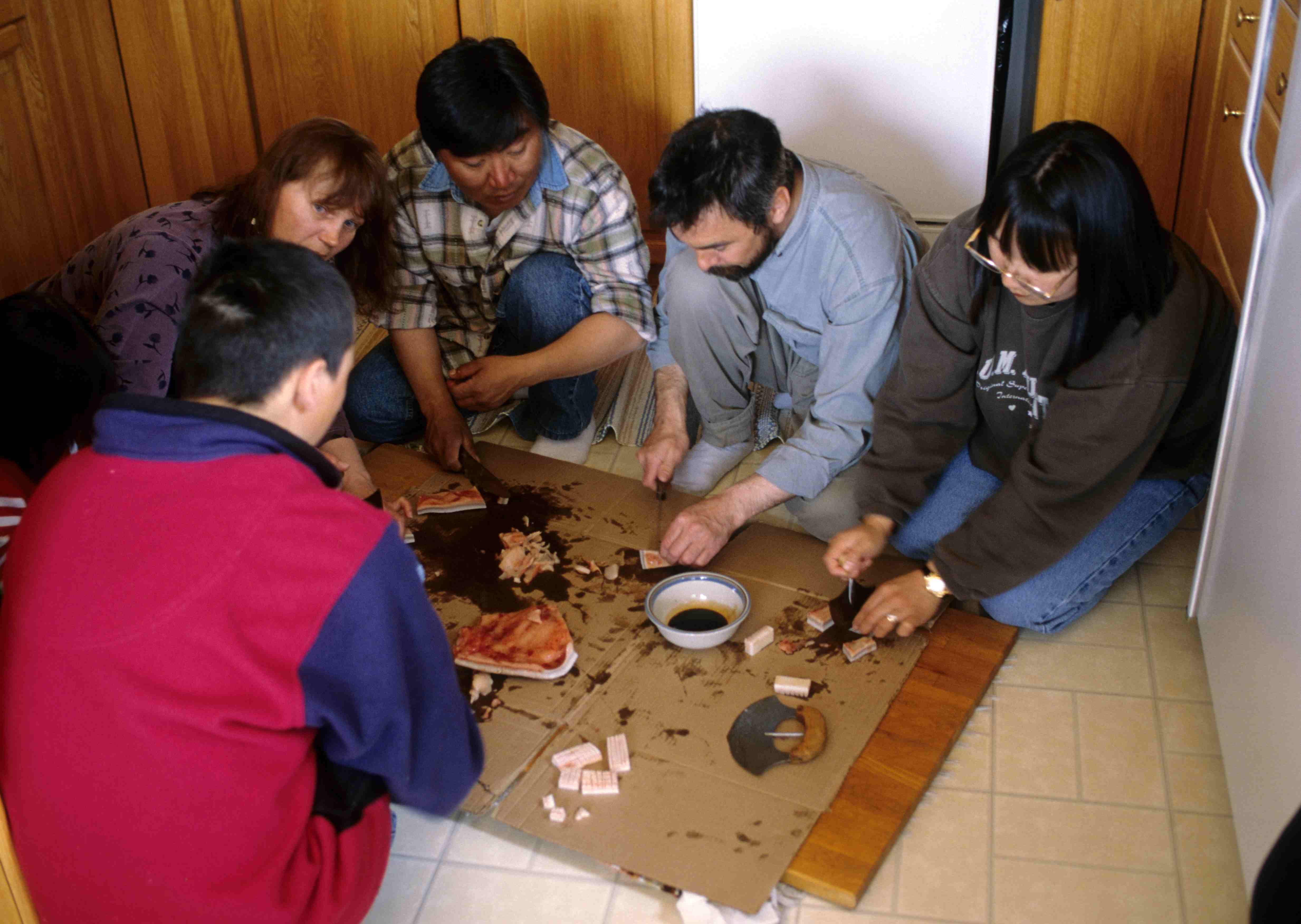 Maktaaq Feast to honour a young hunter for his first beluga whale catch